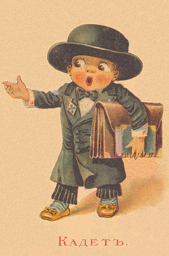 Postcart, 1906 year (election in Russian State Duma)